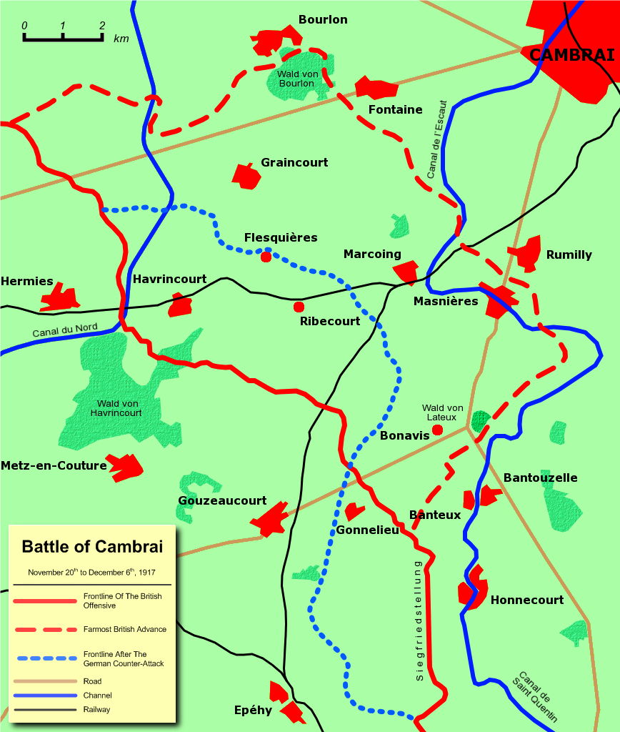 Description: Map of the Battle of Cambrai, english text Source: self-made Painter: W.Wolny Retouch: Uv1234